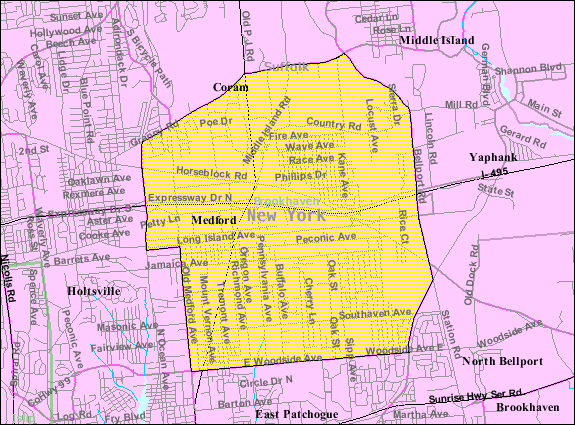 U.S. Census 2000 reference map for Medford, New York